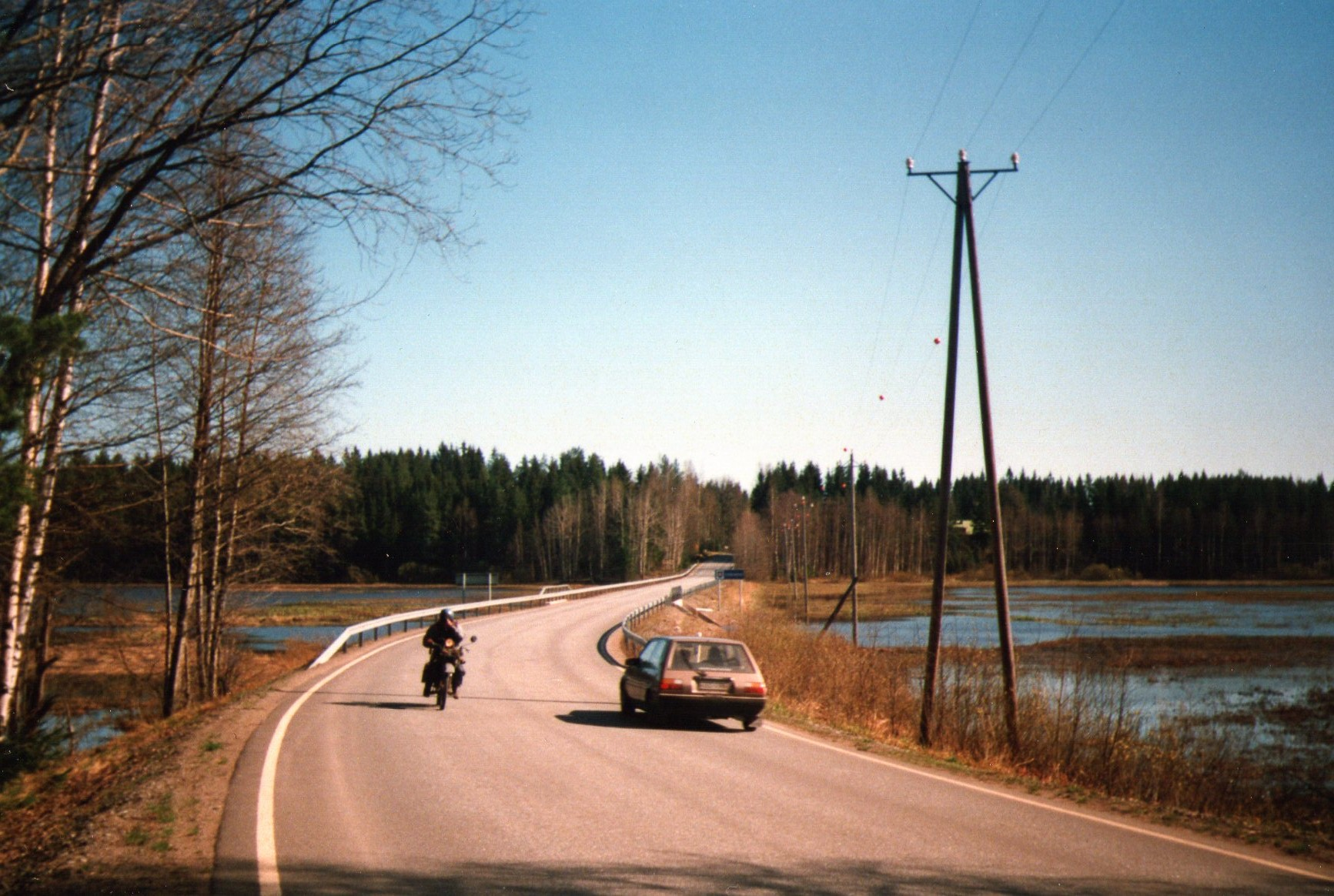 Lake Pitkäjärvi, Harjavalta, Finland.